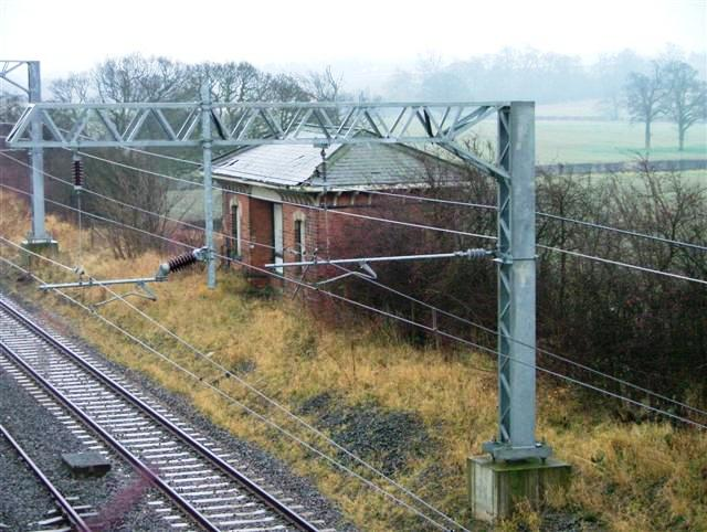 Disused Station Building, Widmerpool Station